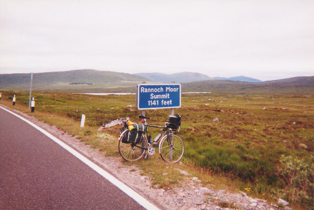 Rannoch Moor Summit. Fortunately the A82 was fairly quiet that day and it was a pleasant ride.